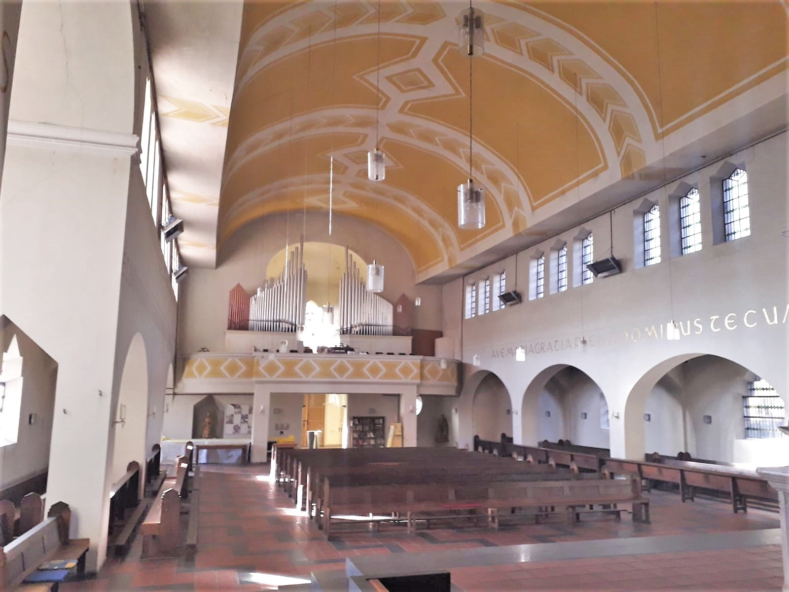 roman catholic St.-Mary's church in Saarbrücken, Saarland, Germany